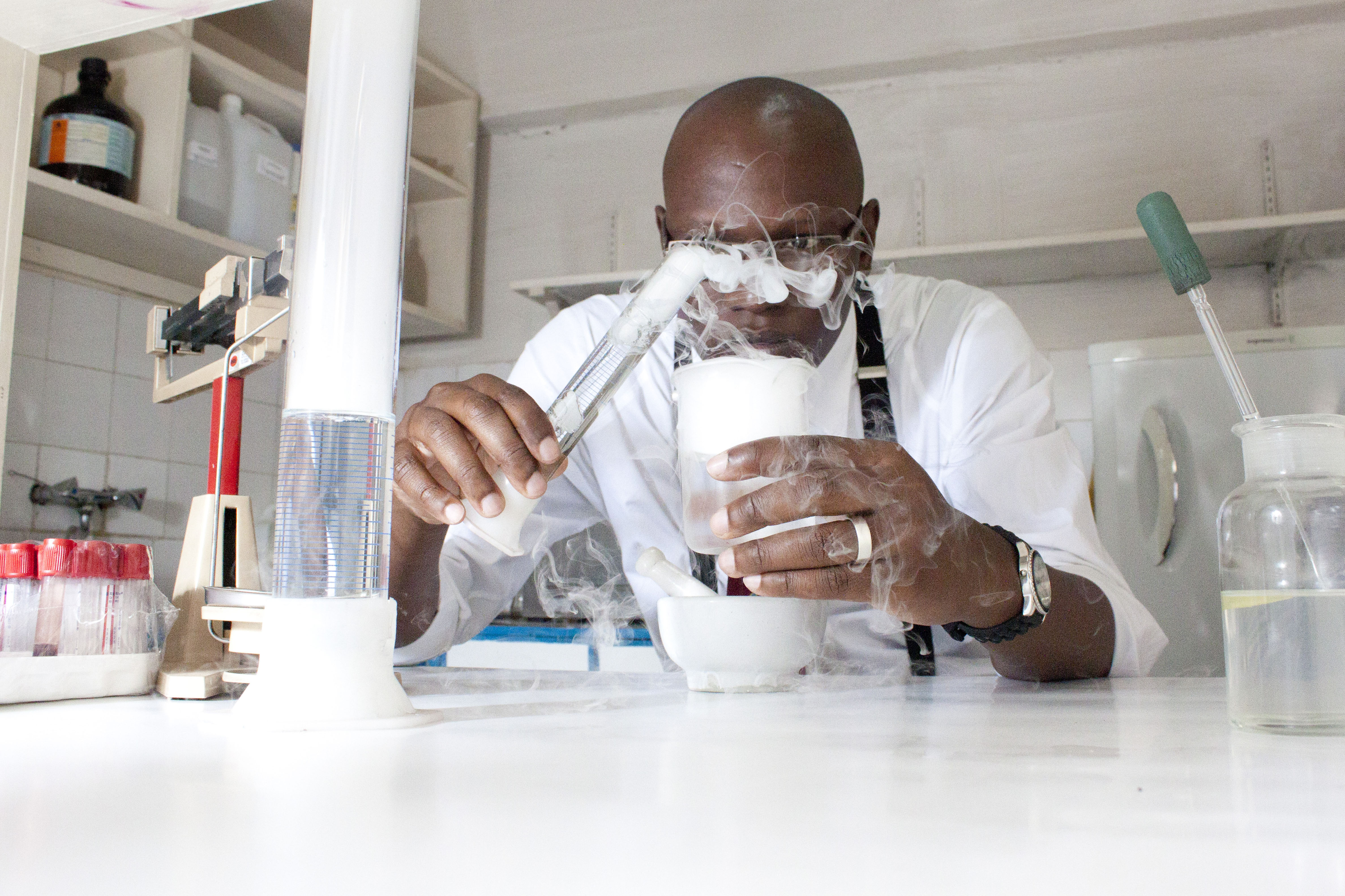 A scientist at work in a medical lab This is an image of "African people at work" from Kenya